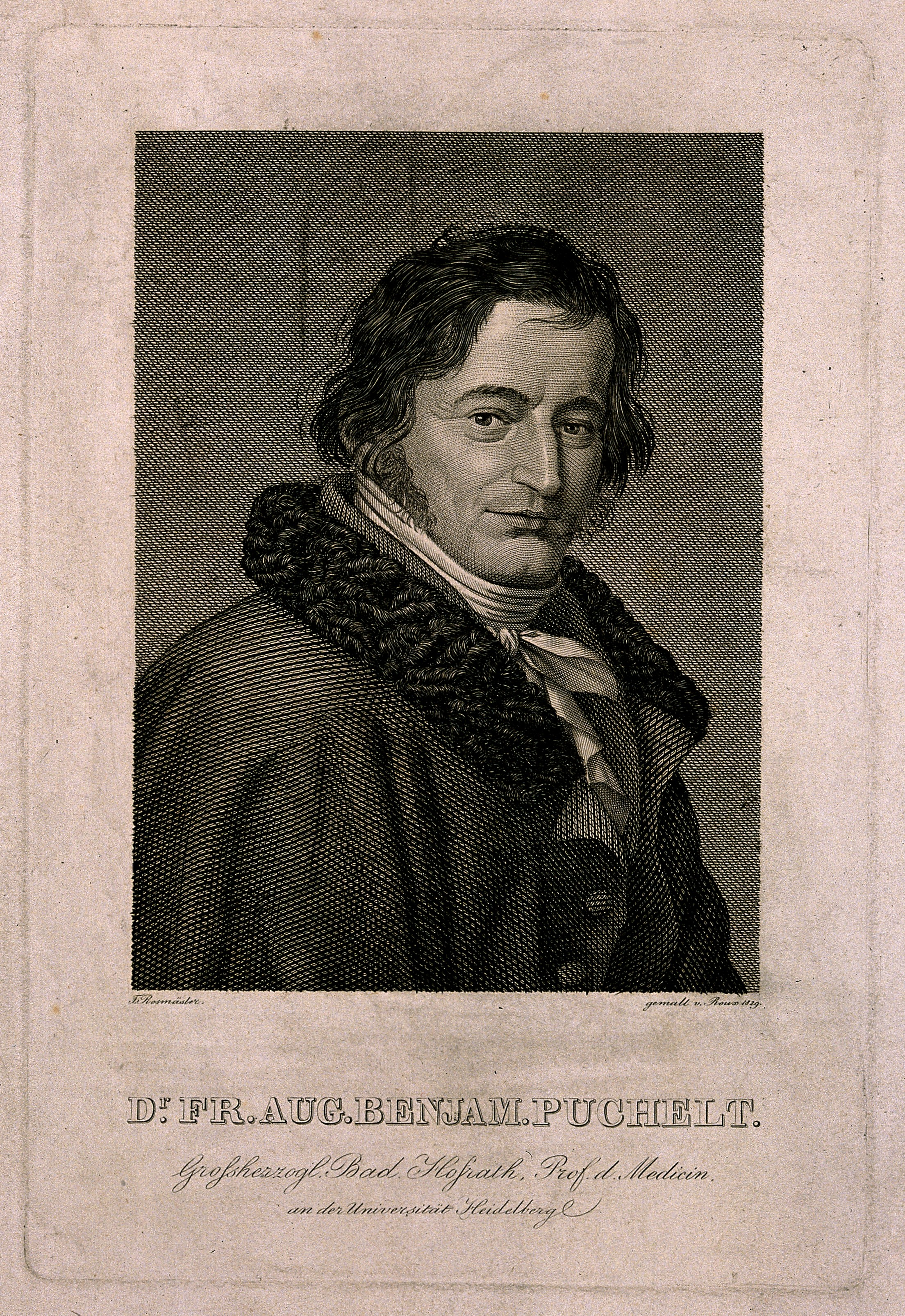 Friedrich August Benjamin Puchelt. Line engraving by F. Rosmaesler after Roux, 1829. Iconographic Collections Keywords: portrait prints; engravings; Friedrich August Benjamin Puchelt